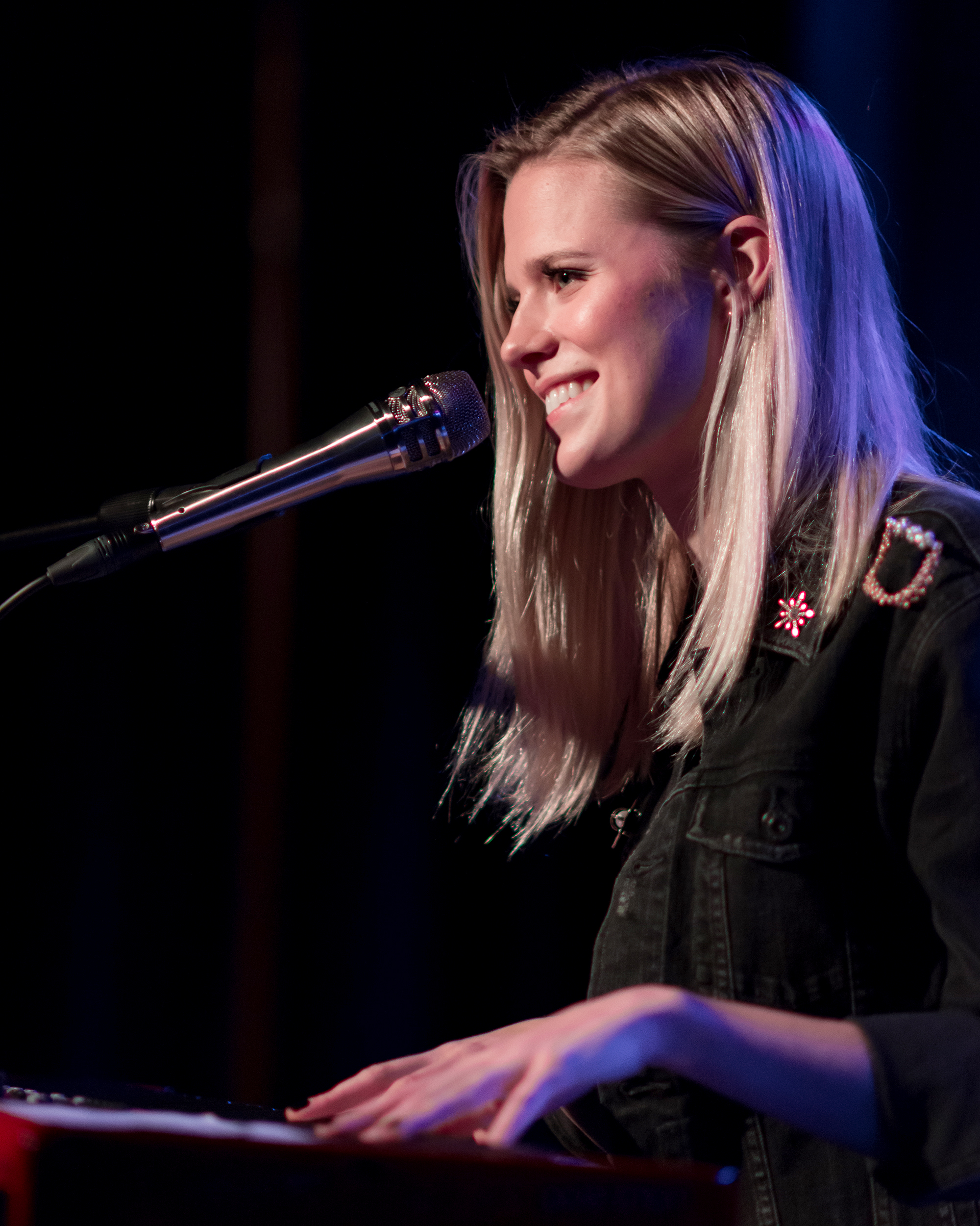 Molly Kate Kestner performing live at the Moroccan Lounge in Los Angeles, California, on Friday, January 5, 2018.